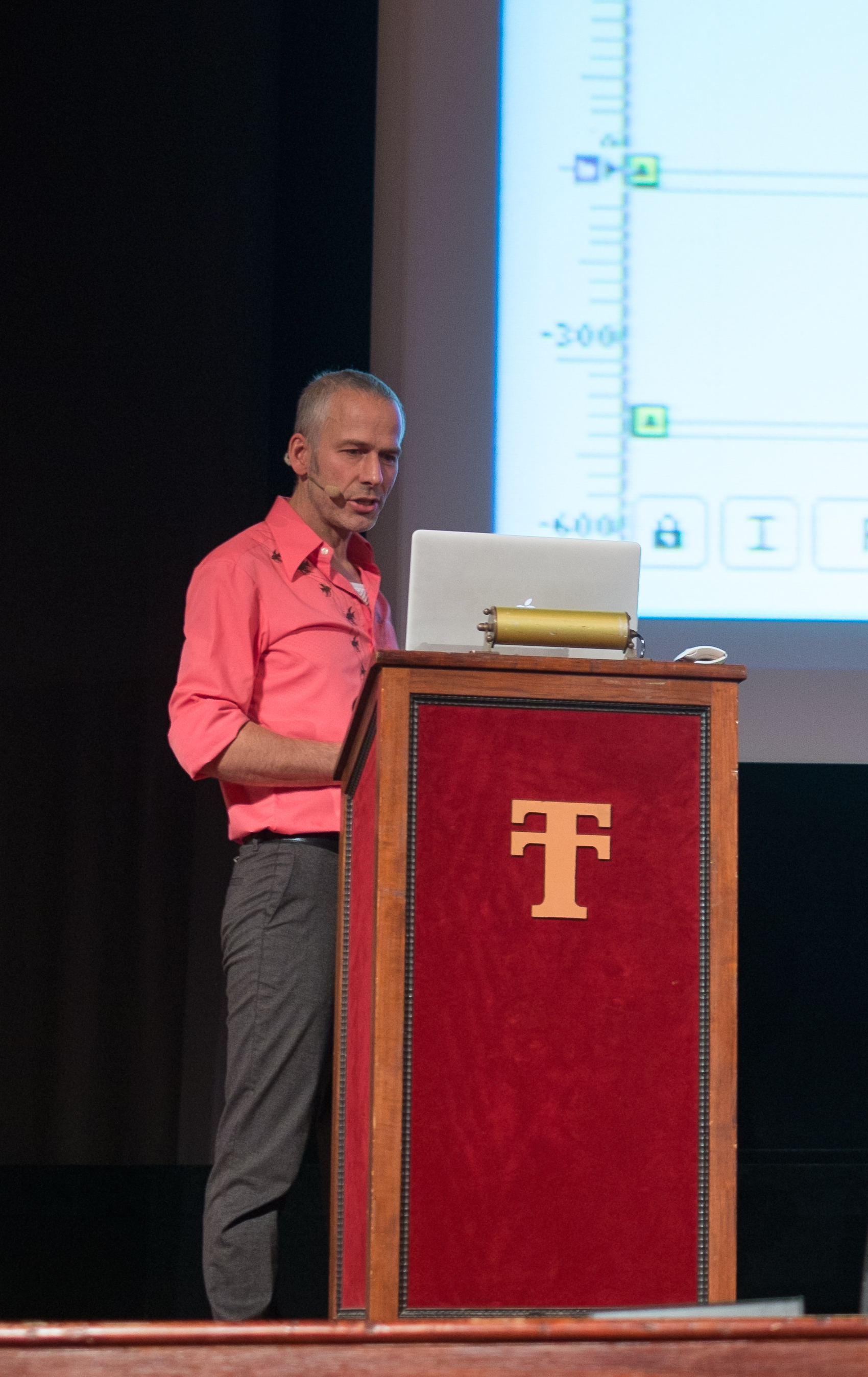 Photograph of designer Lucas De Groot, taken by Andreas Dantz at Fronteers Conference 2013, Amsterdam. Cropped for use in article on subject.